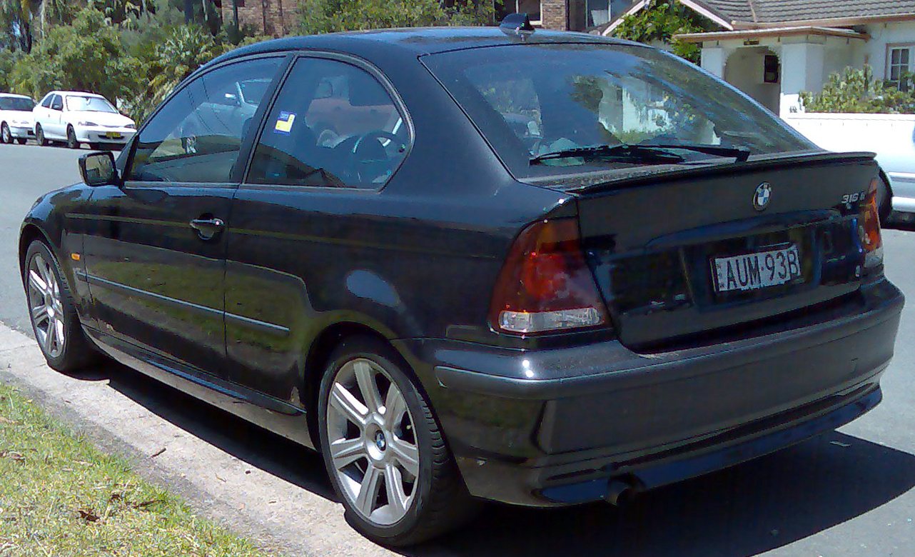 2003–2005 BMW 316ti (E46) hatchback. Photographed in Gymea, New South Wales, Australia.